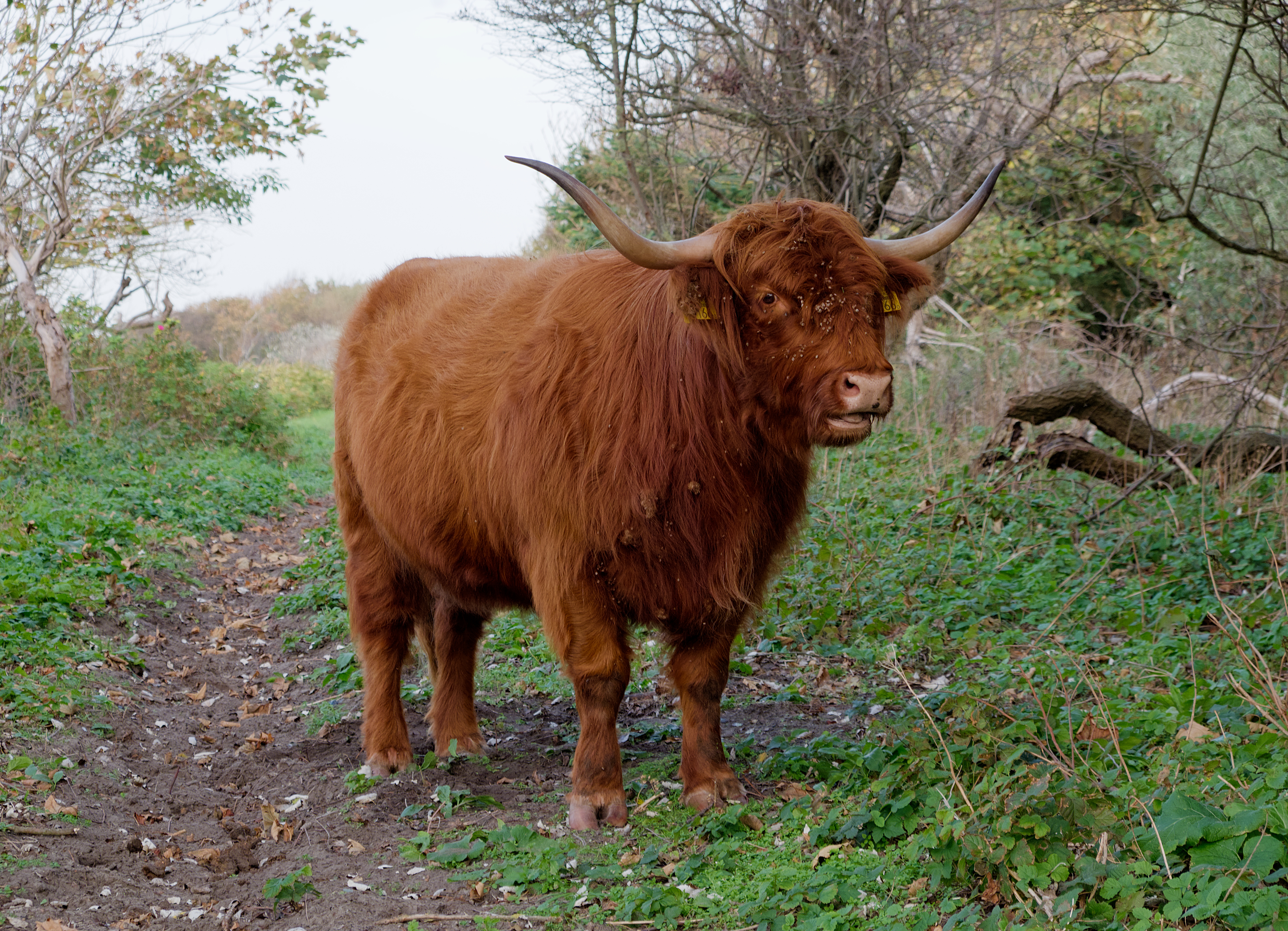 Scottish Highland cow in Westduinpark, The Hague